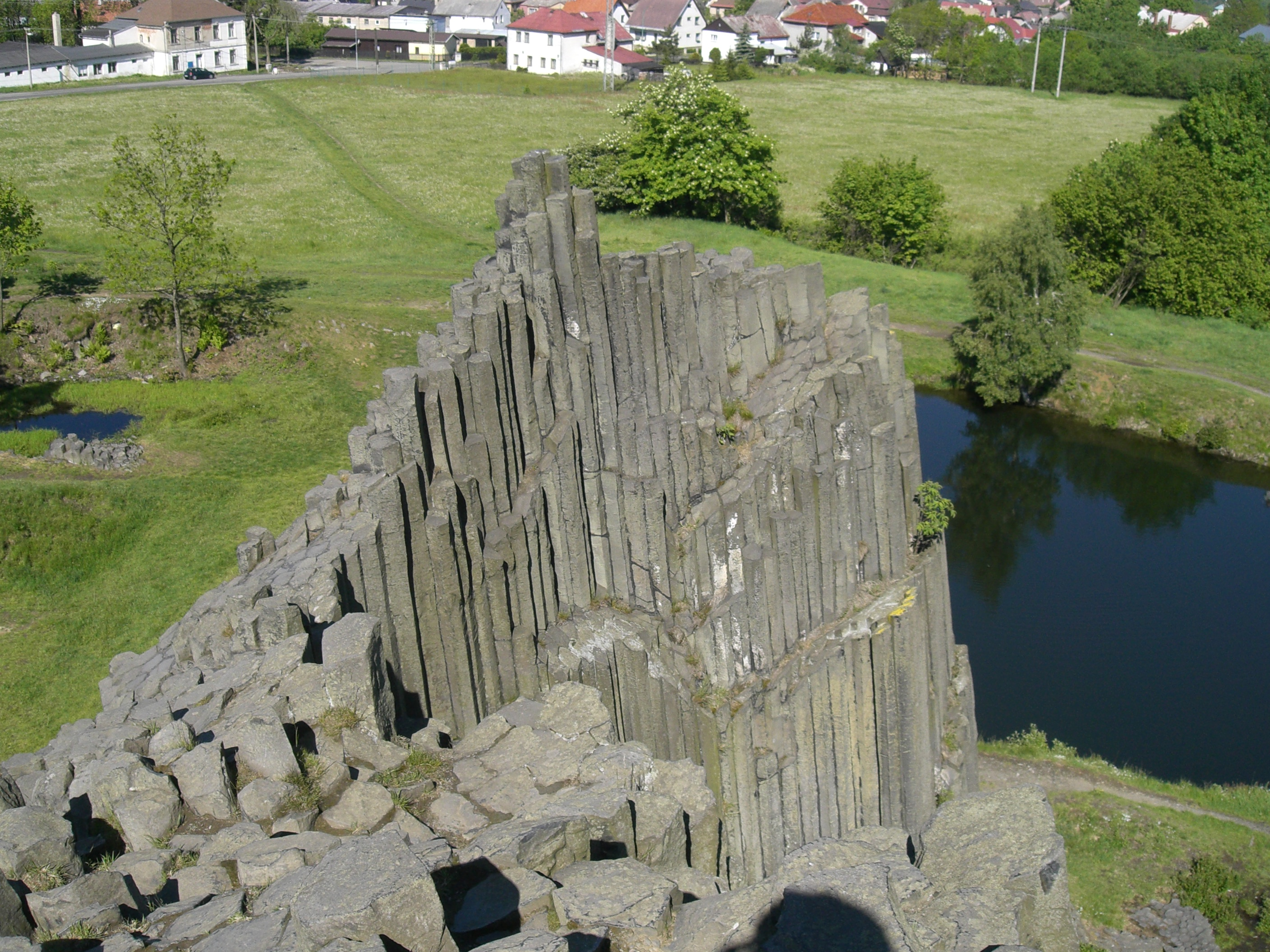 Panská skála, Czech Republic.